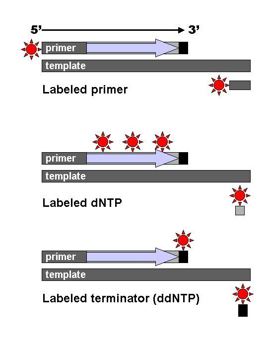 Created by Abizar Lakdawalla.